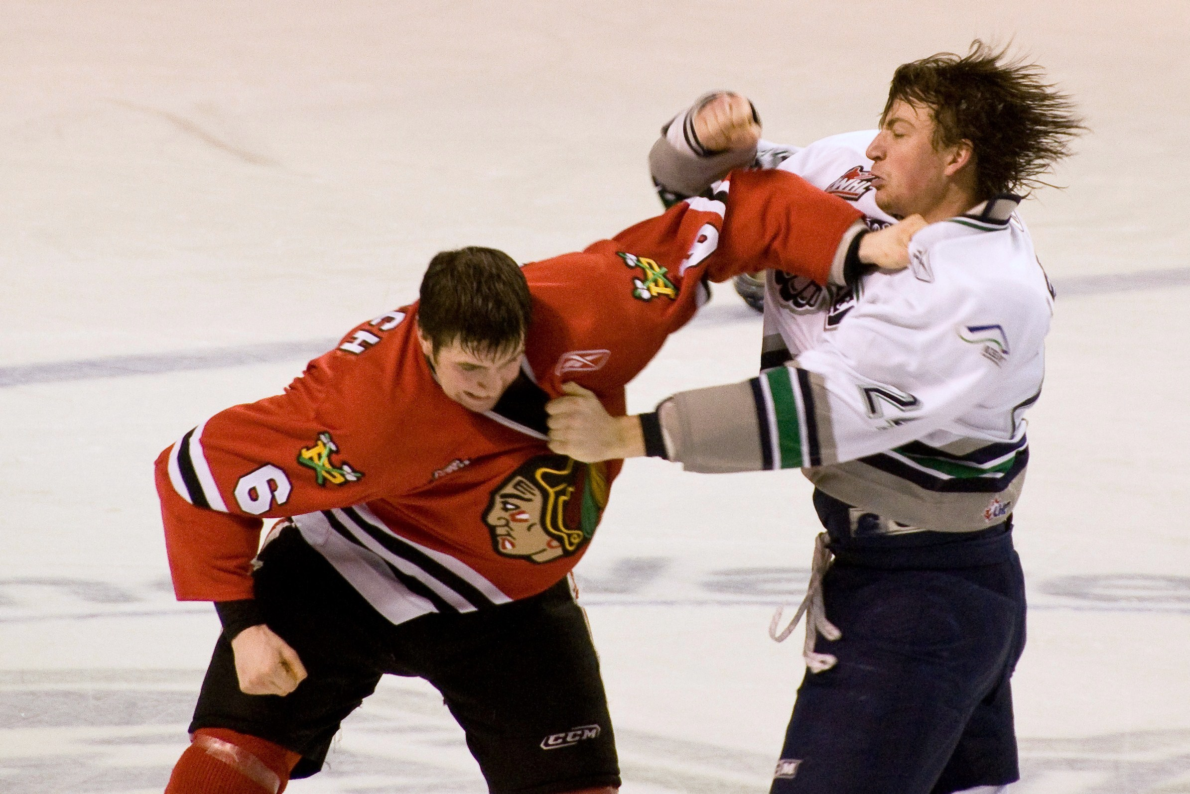 A fight in ice hockey: LeBlanc vs. Ponich.